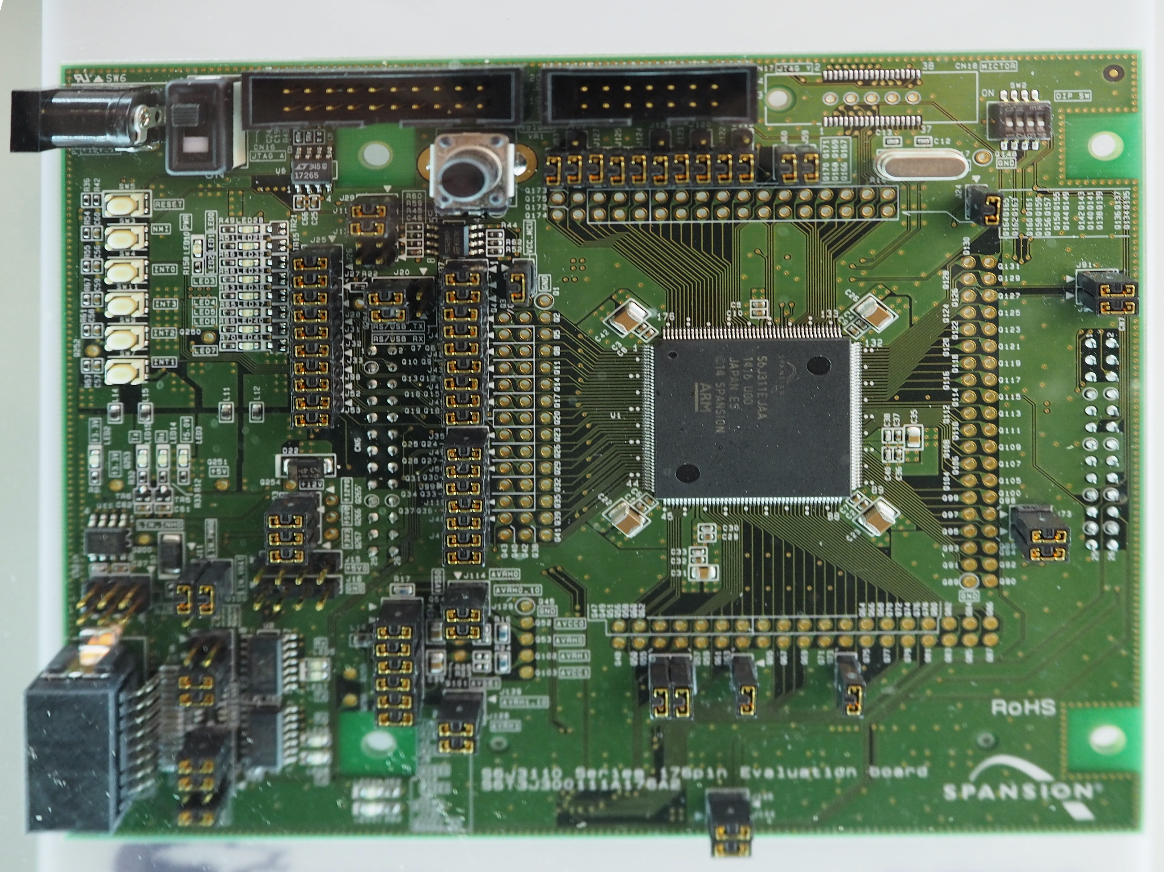 Embedded World fair 2016 in Nuremberg - Spansion Traveo S6J3110 Evaluation Board with ARM Cortex-R5